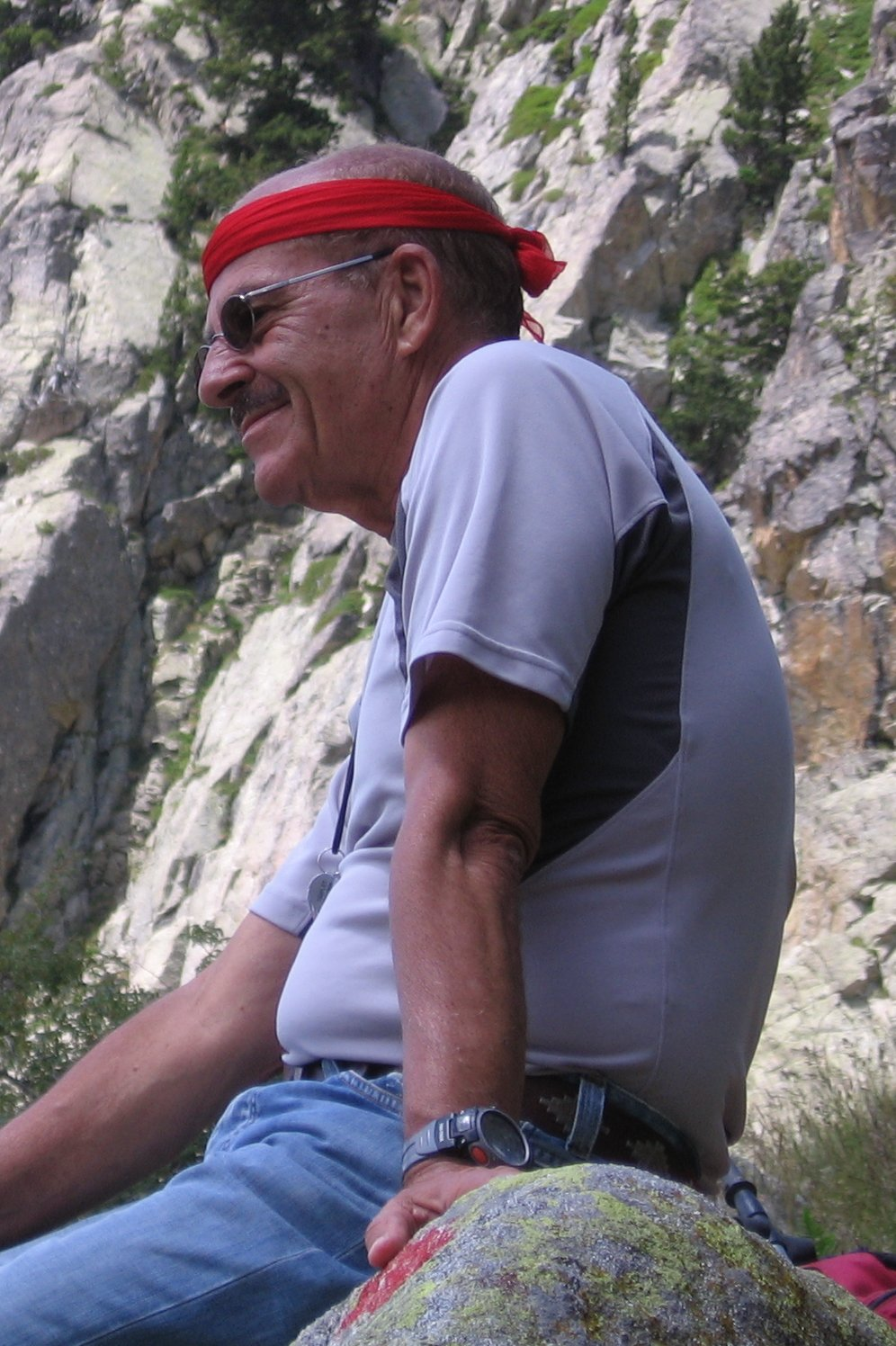 Salvador Rivas Martínez, spanish botanist, in the Pyrenees in summer 2007.